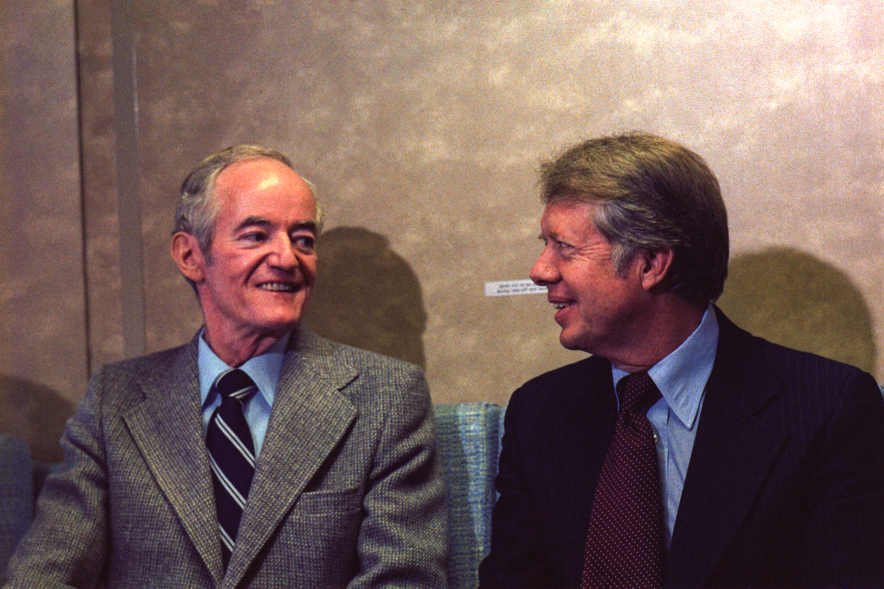 Senator Hubert Humphrey (left) and President Jimmy Carter, 23 October 1977. This media is available in the holdings of the National Archives and Records Administration, cataloged under the National Archives Identifier (NAID) 176625. This tag does not indicate the copyright status of the attached work. A normal copyright tag is still required. See Commons:Licensing. Type of Archival Materials: Photographs and other Graphic Materials Level of Description: Item from Collection JC-WHSP: Carter White House Photographs Collection, 01/20/1977 - 01/22/1981 Location: Jimmy Carter Library (NLJC), 441 Freedom Parkway, Atlanta, GA 30307-1498 PHONE: 404-865-7100, FAX: 404-865-7102, Production Date: 10/23/1977 Part of: File Unit: President Carter, Sen. and Mrs. Humphrey aboard Air Force One, 10/23/1977 Access Restrictions: Unrestricted Use Restrictions: Unrestricted